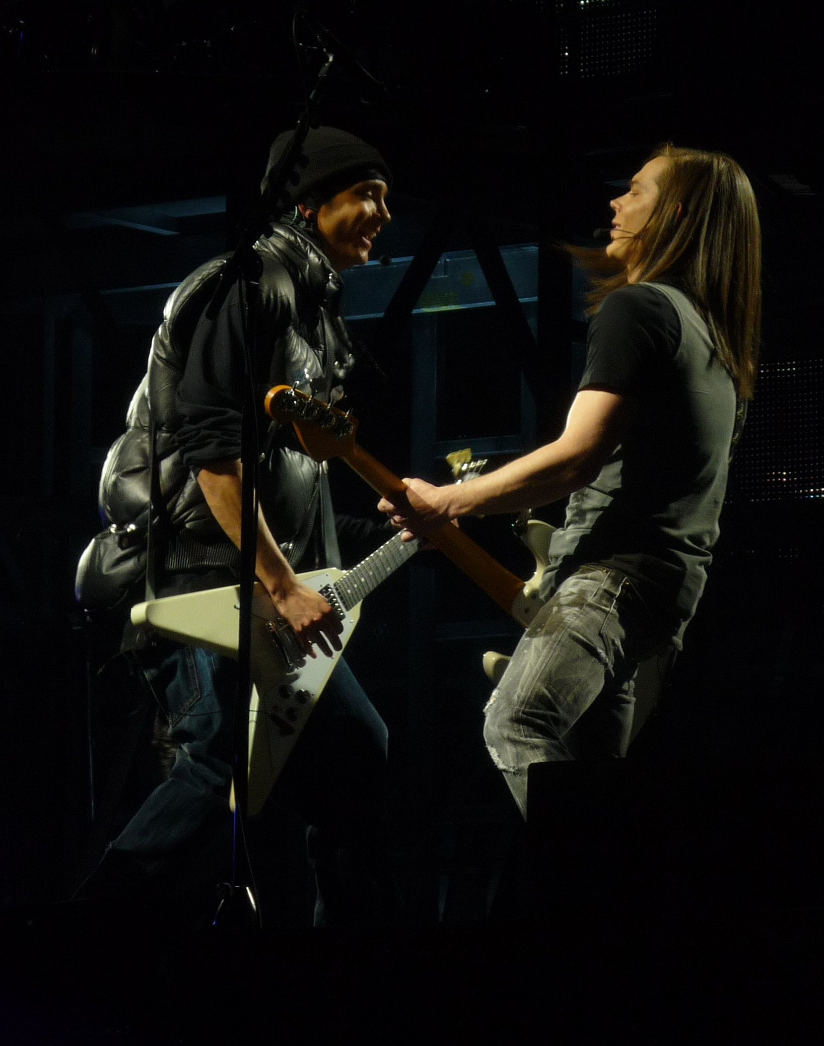 Tom Kaulitz and Georg Listing performing in Zürich in 2010